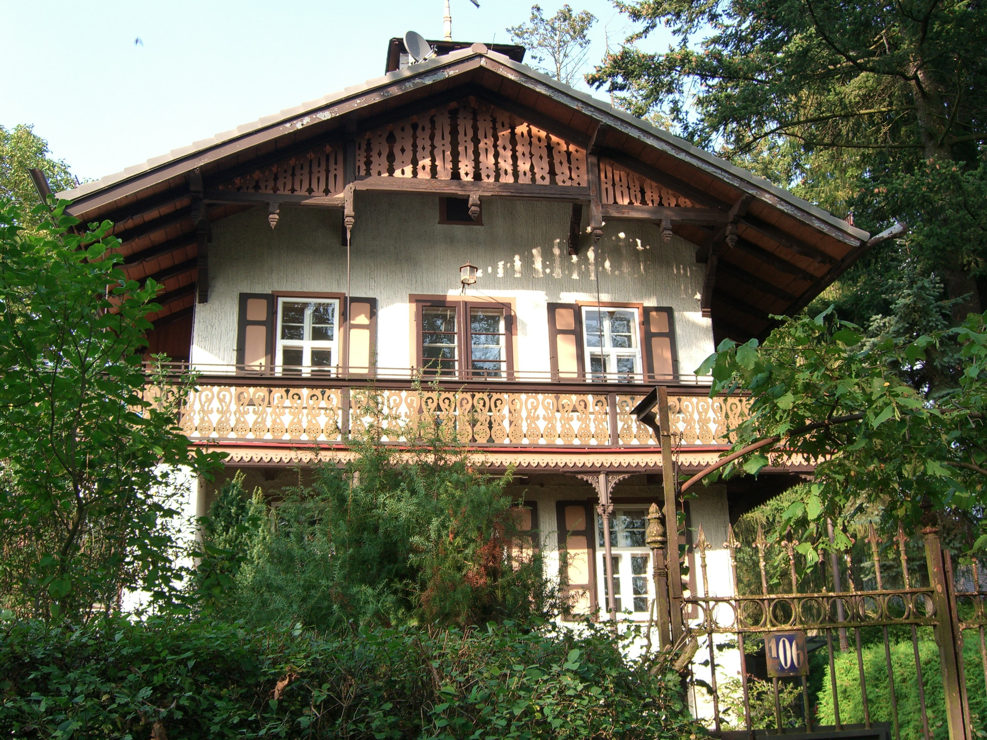 An old villa at the Burgberg in Erlangen, Germany.